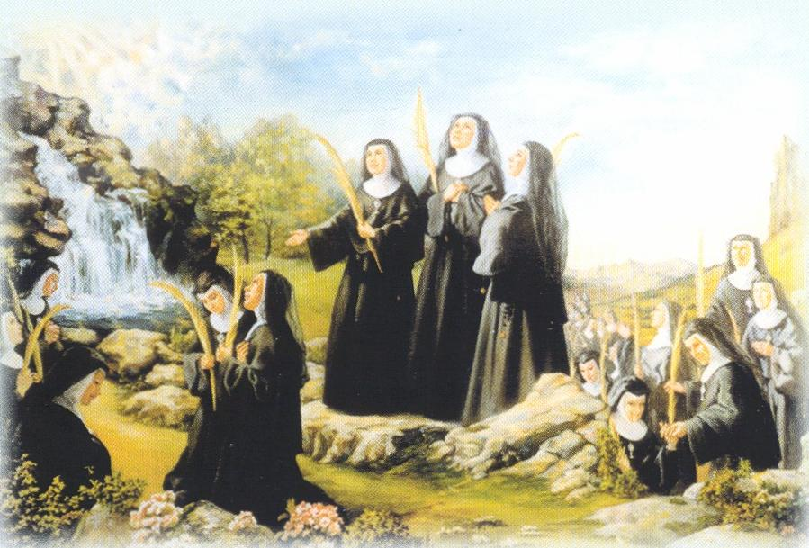 The 23 martyrs of Sisters Adorers, Handmaids of the Blessed Sacrament and of Charity, religious congregation, from a devotional print